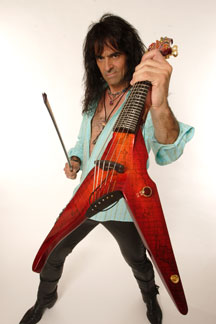 Mark Wood (violinist)